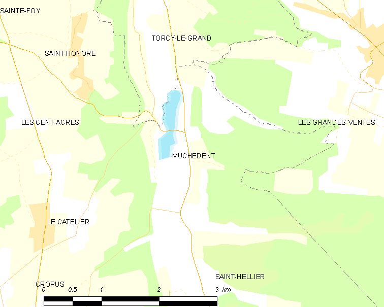 Map of French municipality Muchedent